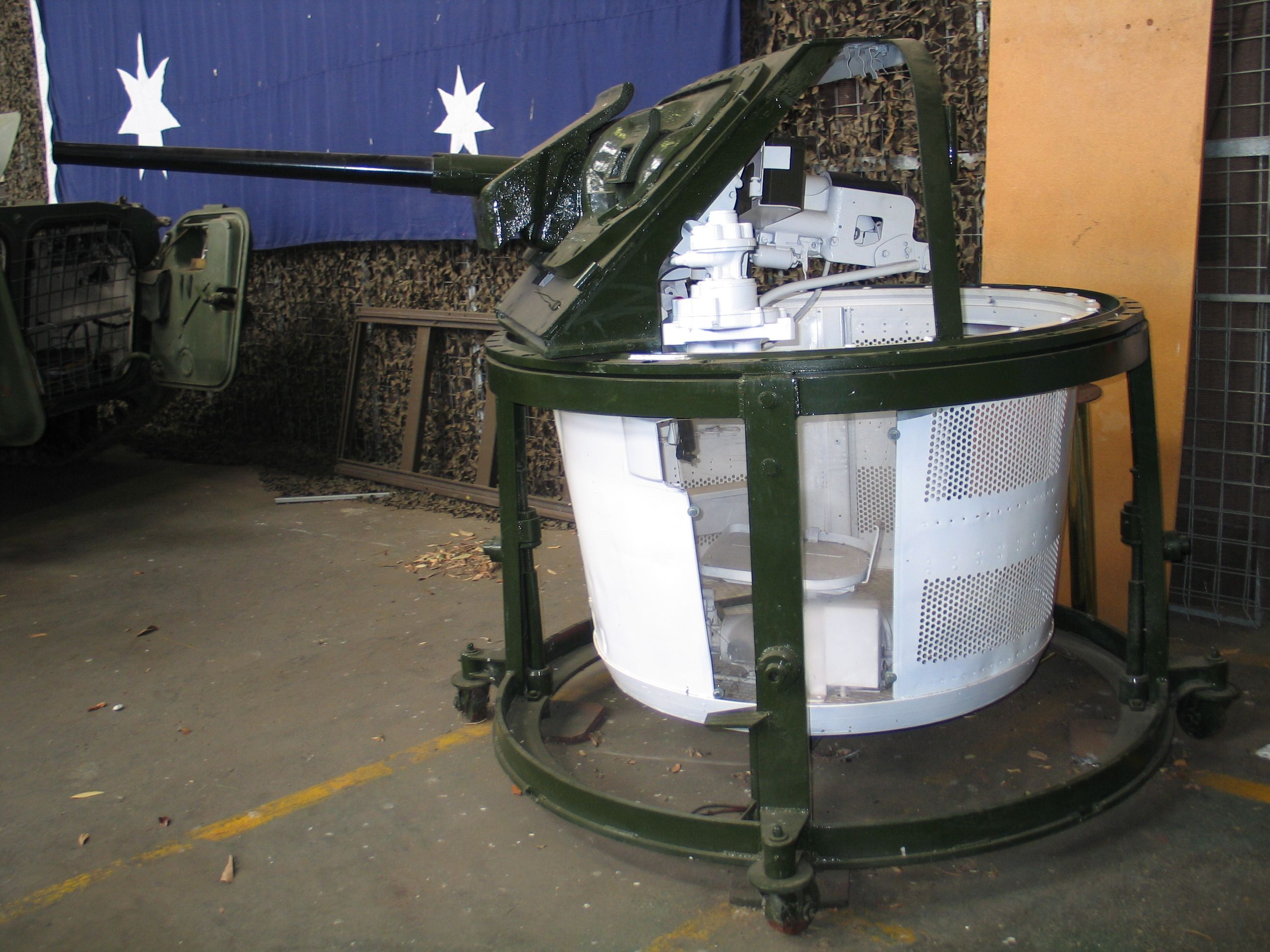 37 mm gun as mounted in Medium Tank M3 Lee/Grant in Royal Australian Armoured Corps Tank Museum, Puckapunyal, Victoria, Australia.